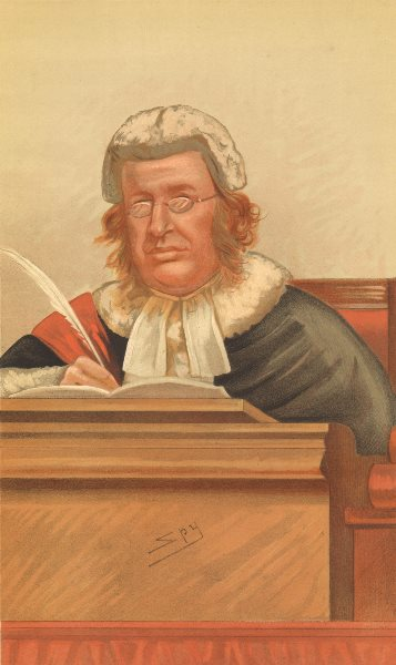 Caricature of The Hon Sir JF Stephen KCSI. Caption read "The Criminal Code".